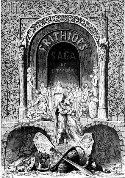 Title page of Fritiofs Saga (1876). Text by Esaias Tegnér, illustration by August Malmström